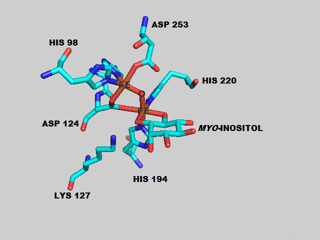 Generated from mouse MIOX crystal structure to highlight relevant active site